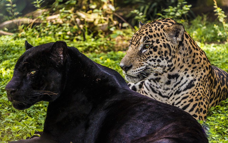 The black jaguar was considered a different species, but is the same Panthera Onca